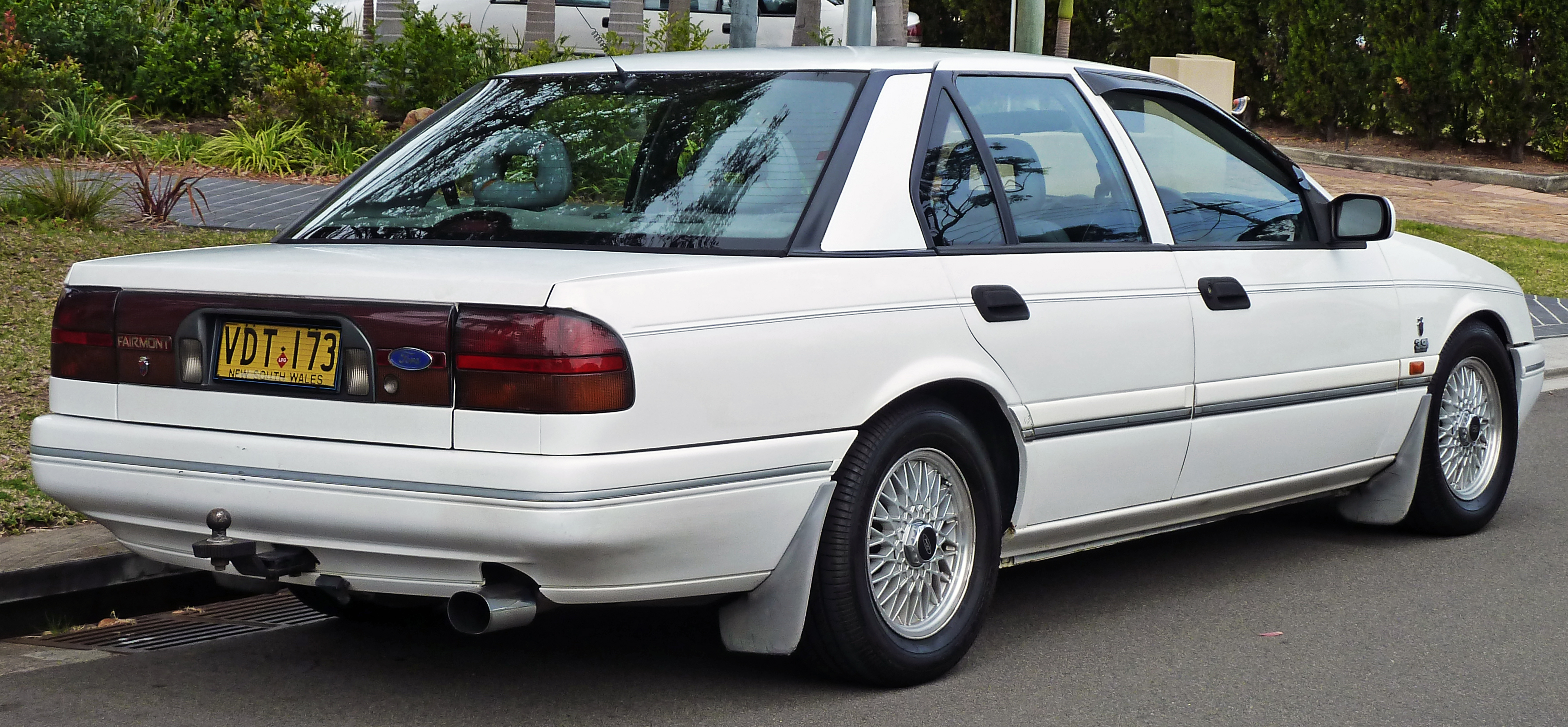 1991–1992 Ford EB Fairmont Ghia sedan. Photographed in Sylvania Waters, New South Wales, Australia.